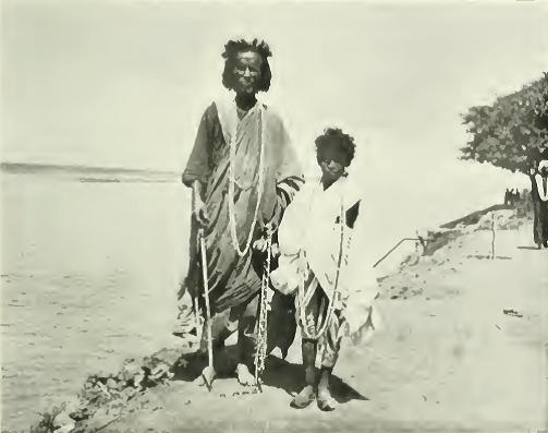 Eng: Native Nubians, Early 20th Century عربي: نوبيون، مطلع القرن العشرين